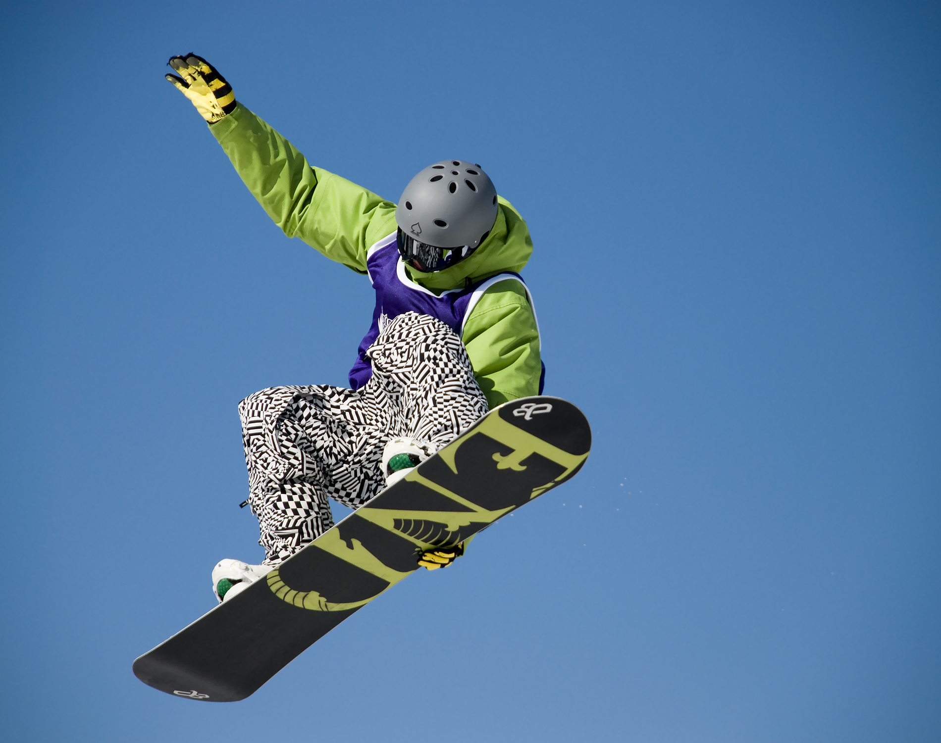 Snowboard figure at the 2008 Shakedown